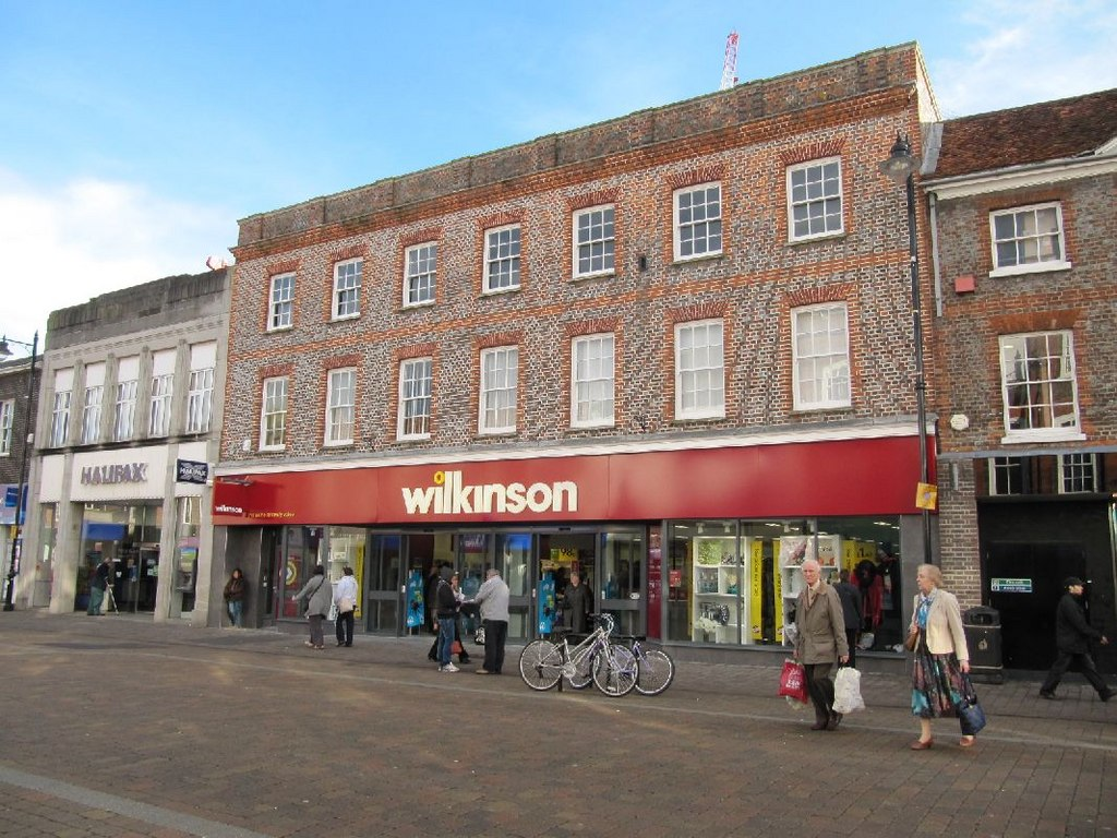 Now called Wilkinsons, near to Newbury, West Berkshire, Great Britain. This was the old Woolworths store along Northbrook Street, Newbury. SU4767 : Woolworths Newbury